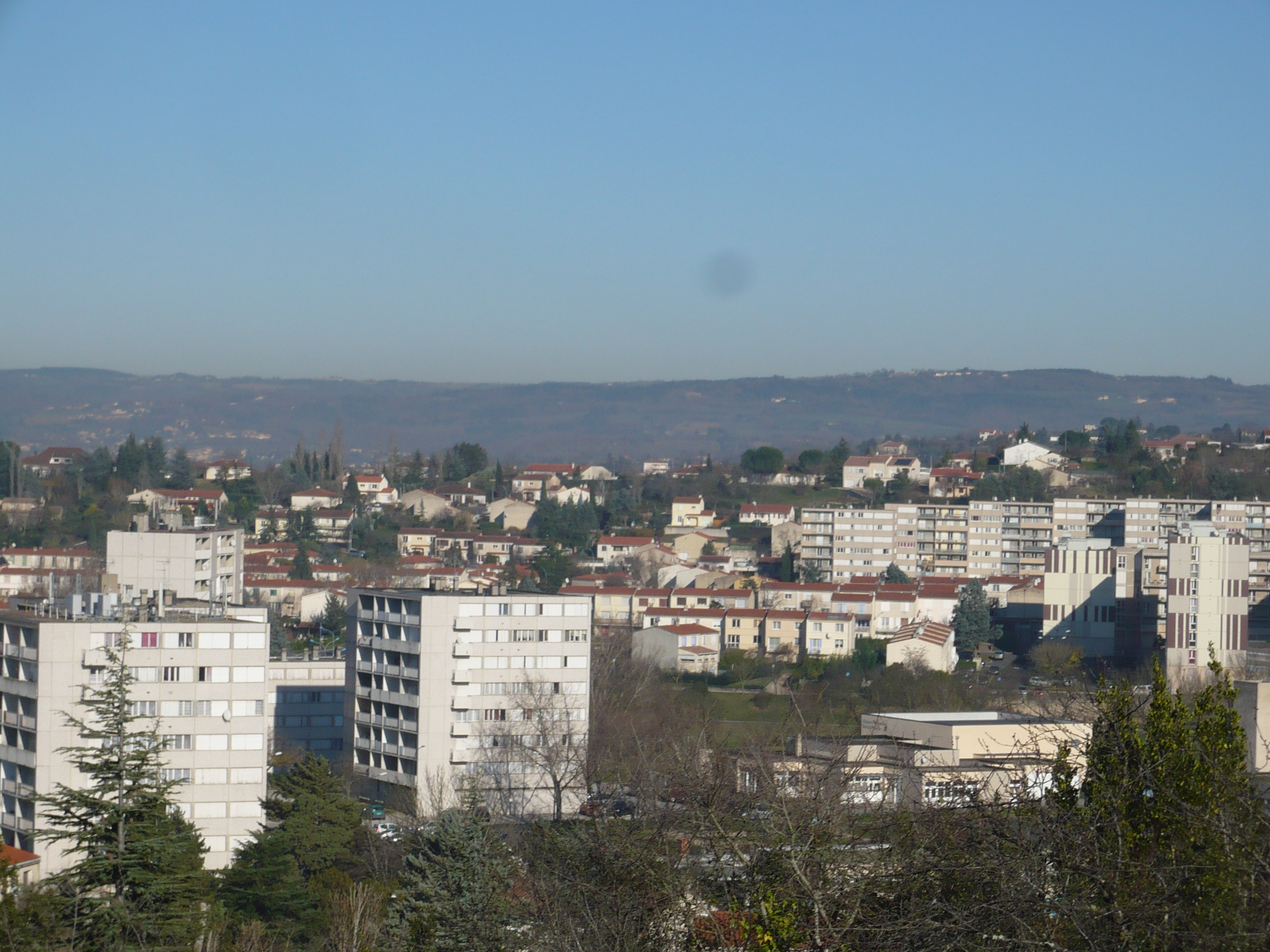 Castres